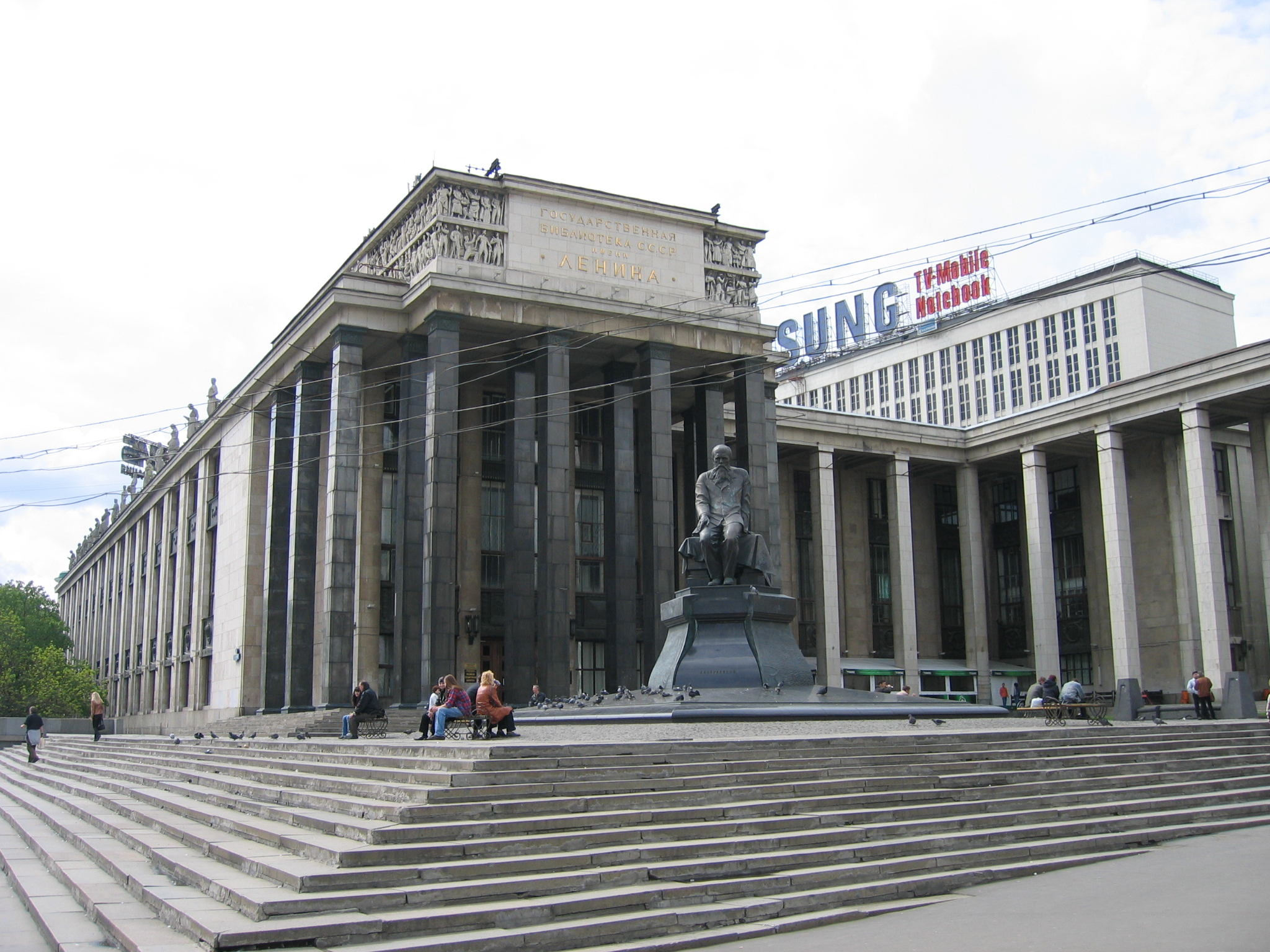 Russian State Library, Moscow. Built in 1928-1958, architects V. G. Gelfreikh, V. A. Schuko et al.